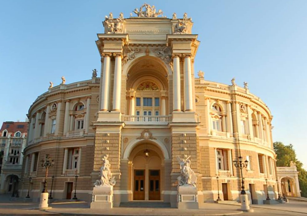 Front view